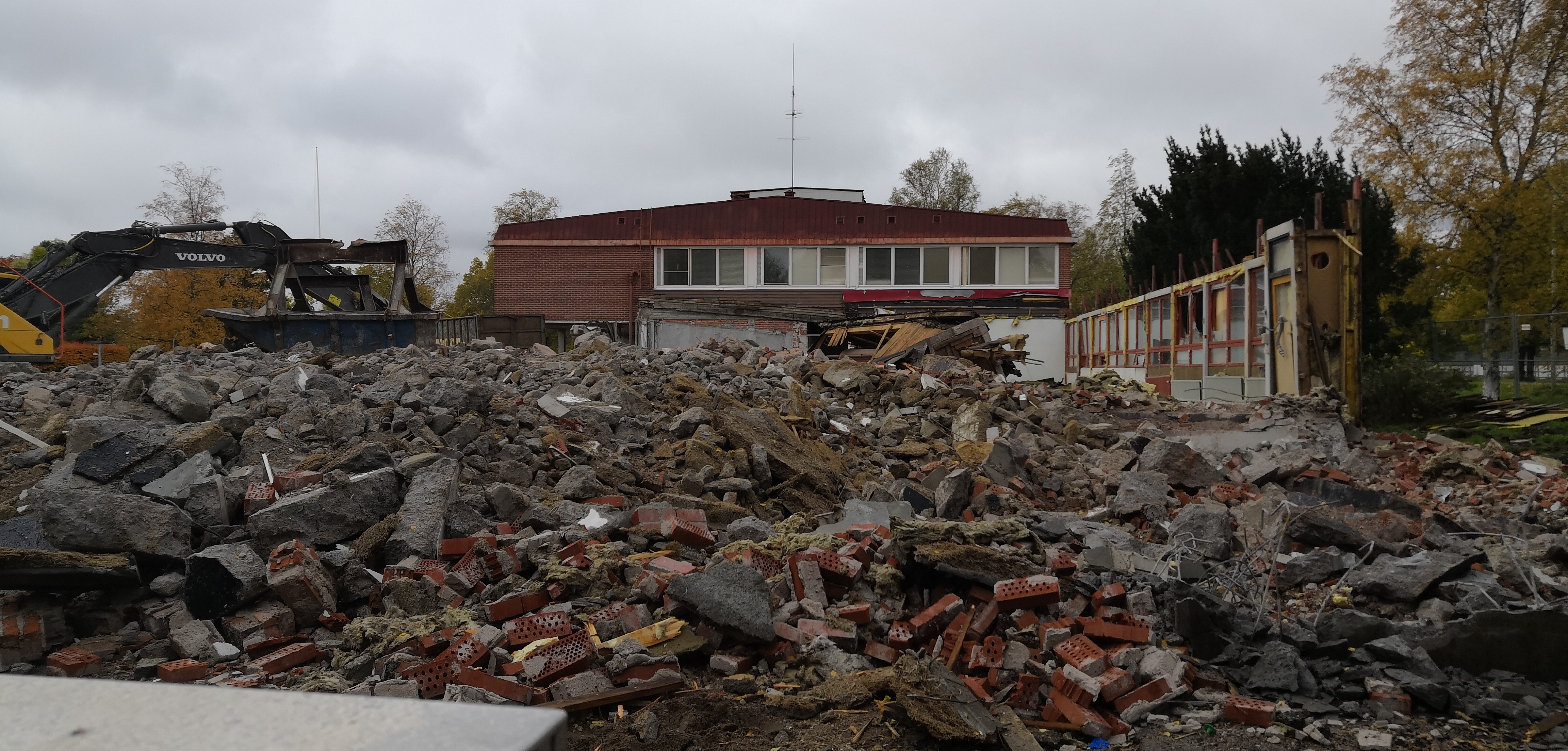 Sarkolan koulun purkutyömaa